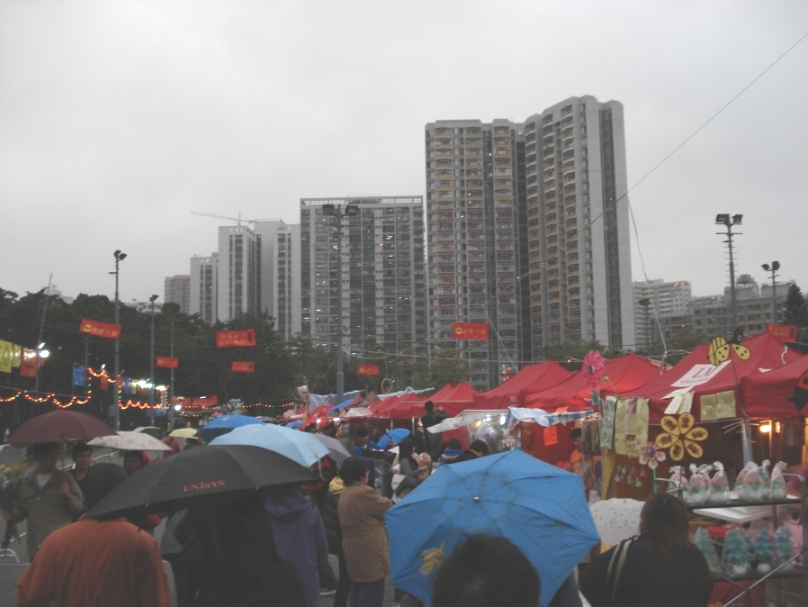 Morse Park , Wong Tai Sin: Junction of Fung Mo Street and Tung Tau Tsuen Road , Wong Tai Sin